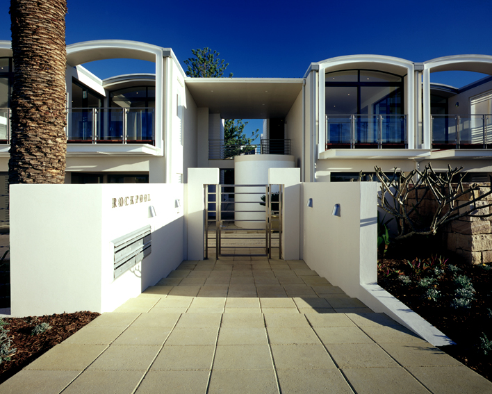 Rockpool Apartments by Popov Bass Architects